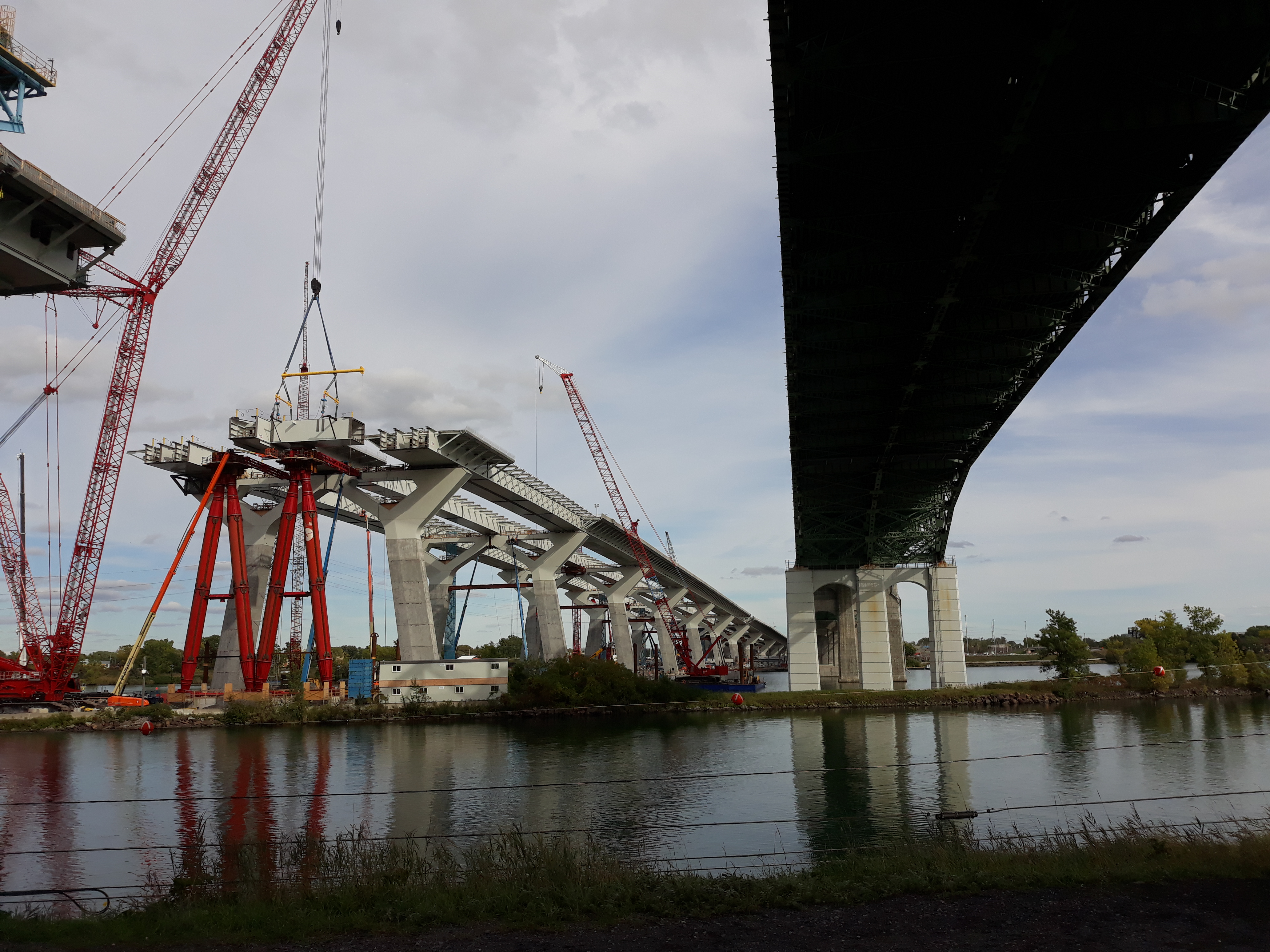 The new bridge is designed to accomaodate cars, bicycles and a light passenger train. The construction form prefabricated elements reduces drastically the construction time. To be commissionned end of 2018. The old bridge will be de-constructed